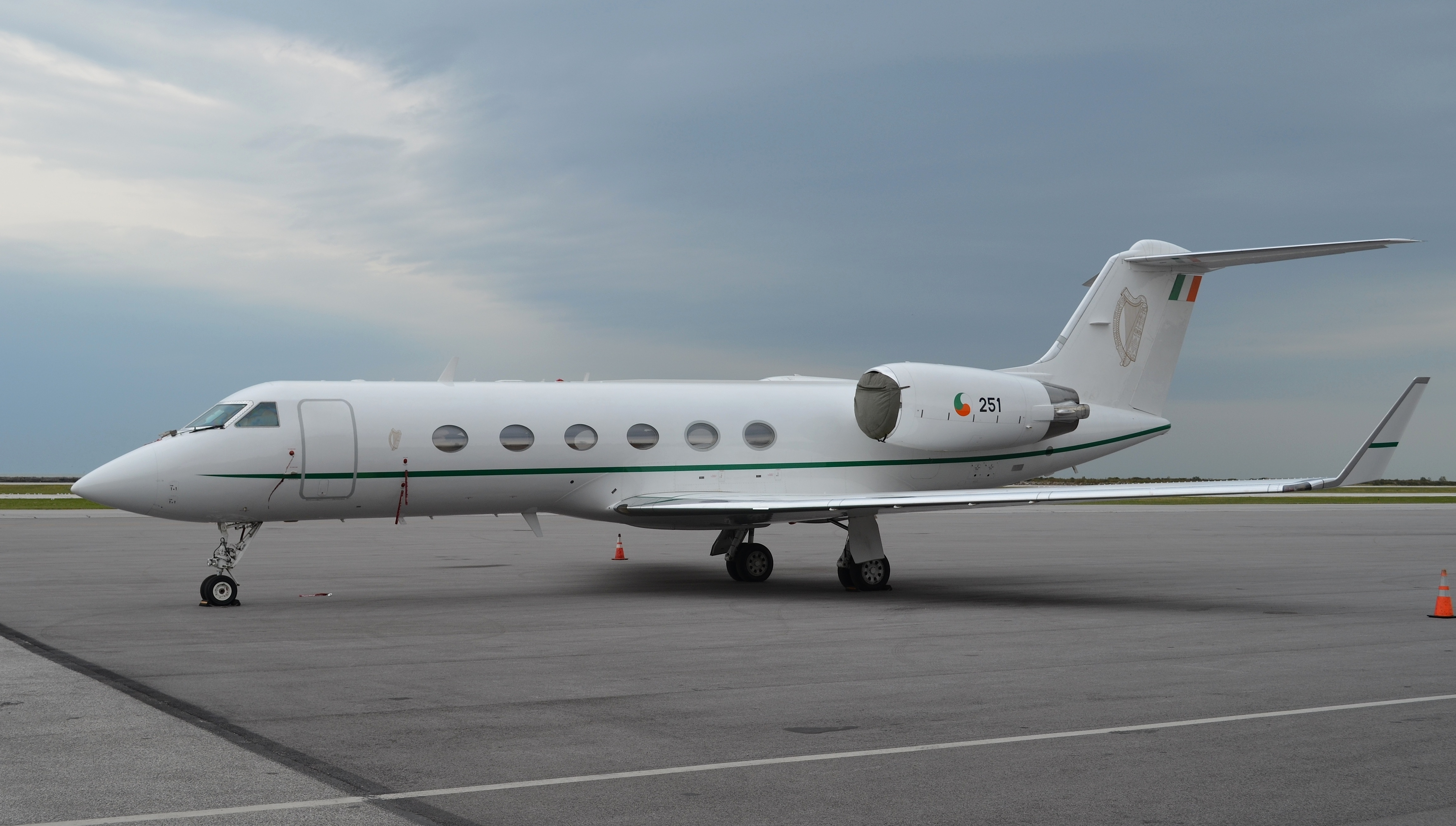 251 (cn 1160) Irish An tAerchór (Air Corps) Grumman G1159C Gulfstream IV used as VIP Transport at a cost of €3,790 per hour. Seen at Burke Lakefront Airport, this G-1159C brought The Taoiseach of Ireland (The Irish Prime Minister) Enda Kenny to Cleveland to tour the Cleveland Clinic and to address The City Club of Cleveland. His goal is to boost Ireland's economy and spread the word that Ireland remains open for business.